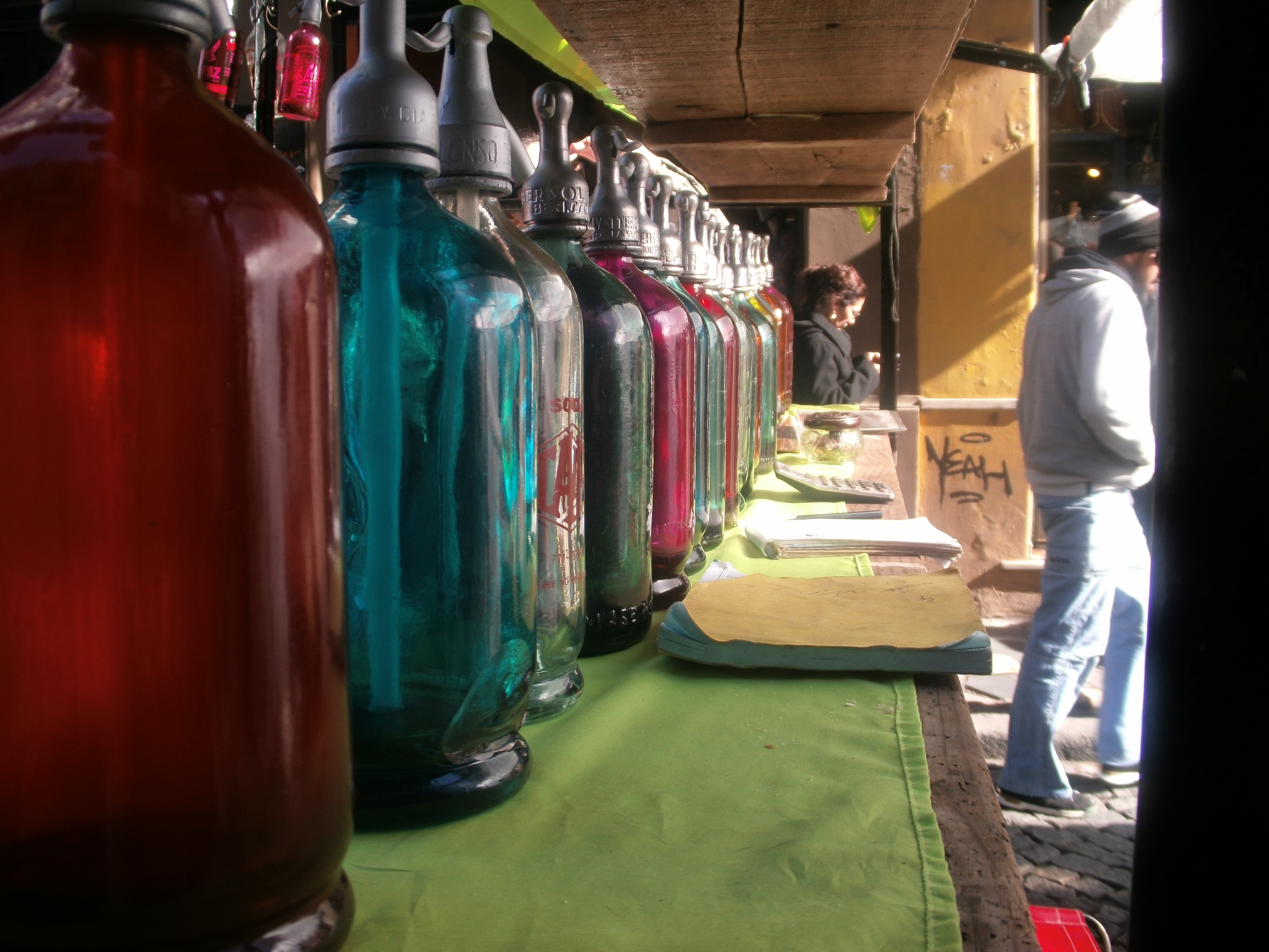 Mercado ambulante de la Plaza Dorrego.Plaza Dorrego.